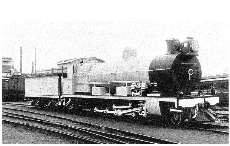 SAR Class 3 1448 (4-8-2) Ex NGR 332 Builder's works number: NBL 18831/1909